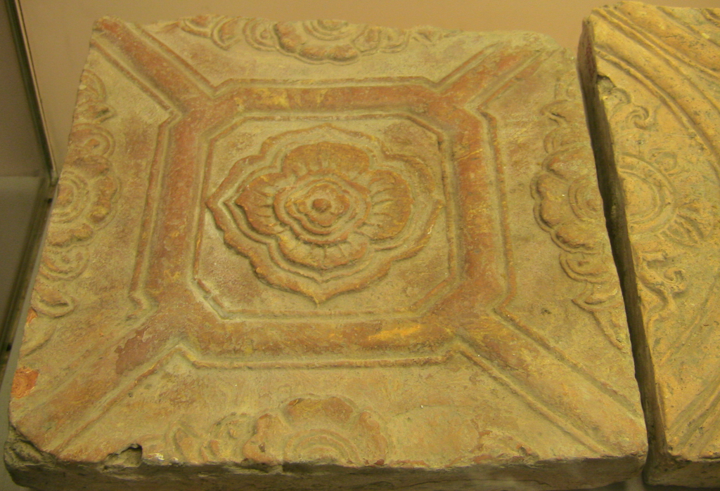 Hồ Dynasty (late 15th century, Vietnam) lotus flower figure decorated terra cotta floor tile.